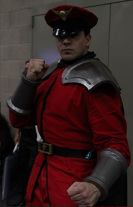 Wondercon 2016 - M. Bison Cosplay Cosplay at WonderCon 2016.